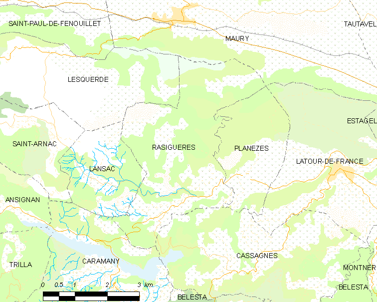 Map of French municipality